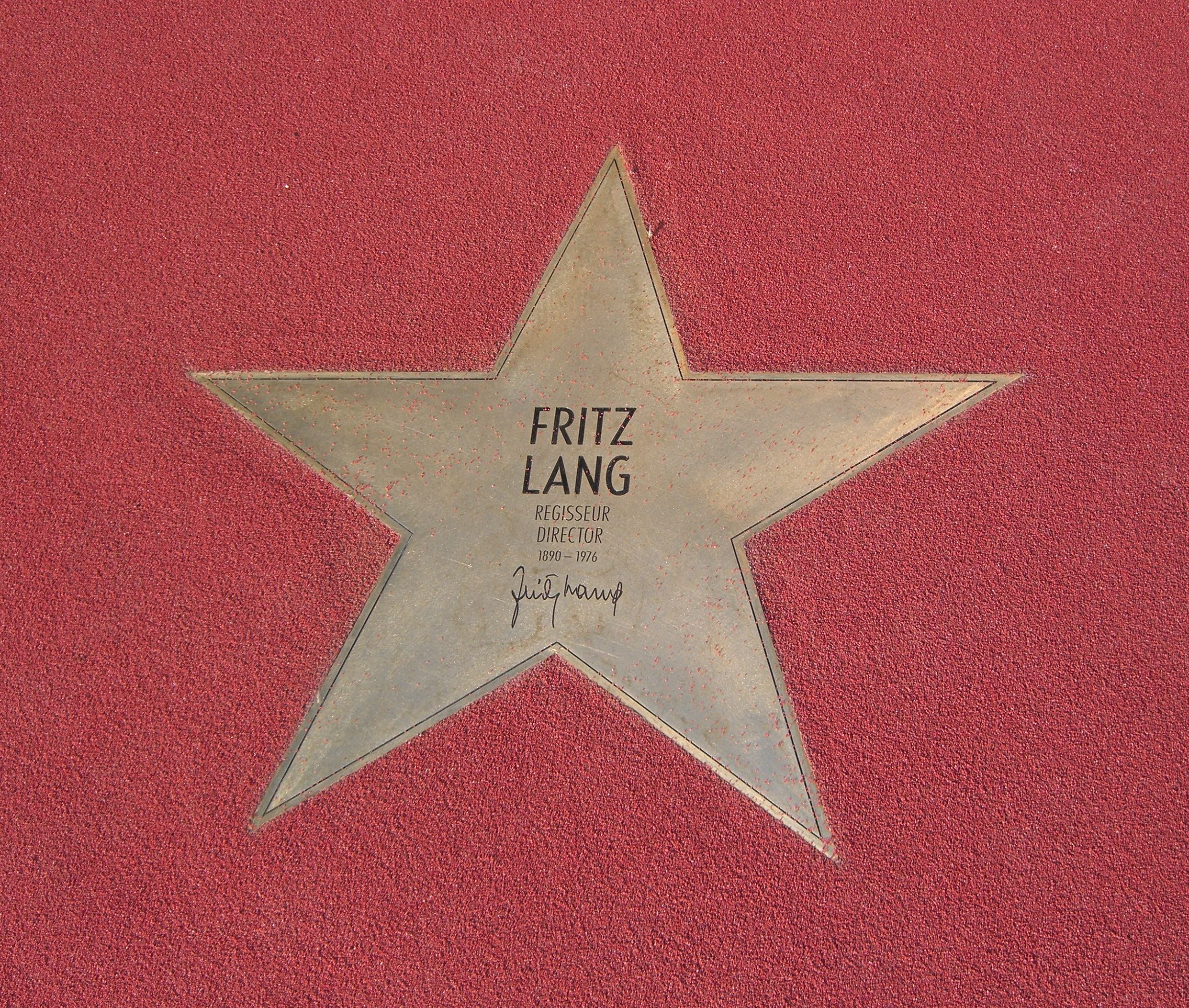 Star of Fritz Lang at Boulevard der Stars in Berlin.